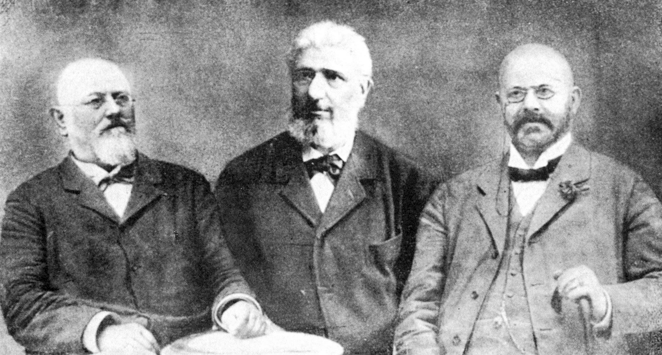 Croatian politicians David Starčević, Ante Starčević and Milan Starčević